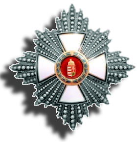 Order of Merit with middlecross and star (Republic of Hungary)